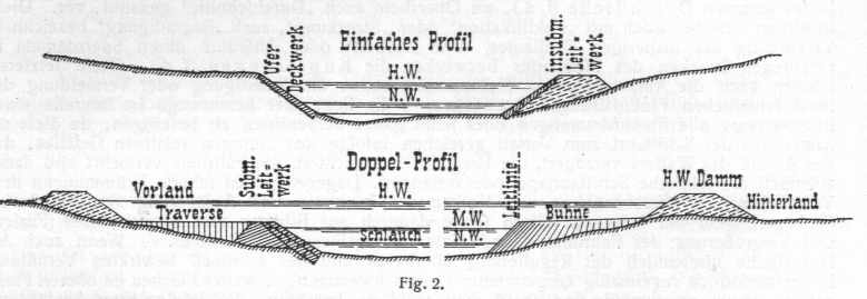 This image comes from the Lexikon der gesamten Technik (dictionary of technology) from 1904 by Otto Lueger.